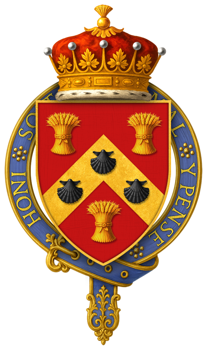 Coat of Arms of Anthony Eden, 1st Earl of Avon, KG, MC, PC ARMS: Gules on a chevron between three garbs or, banded vert, as many escallops sable.